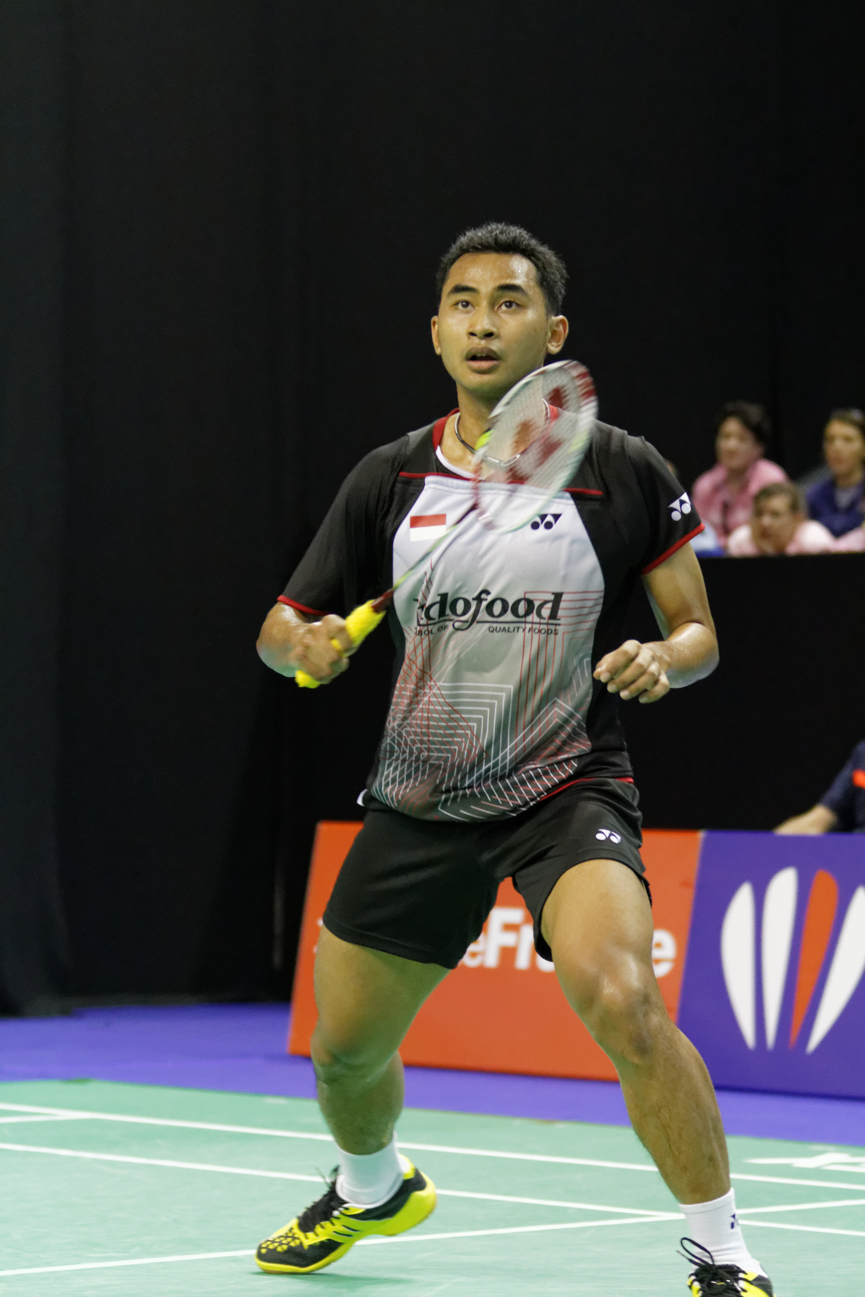 2013 French open. Men's singles quarterfinal. Kenichi Tago vs Tommy Sugiarto.